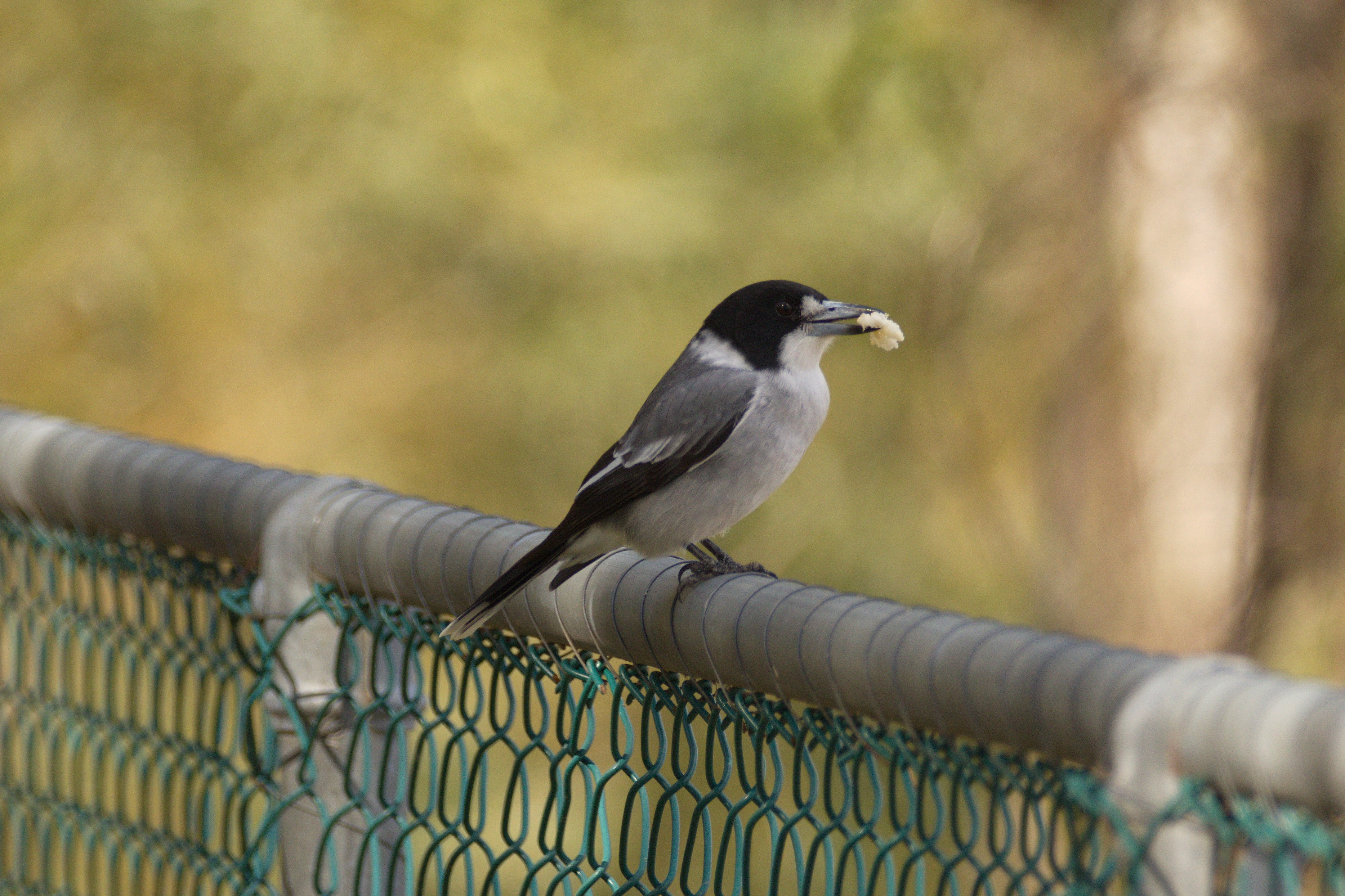 Cracticus torquatus (Latham, 1801), Grey Butcherbird, Lake Perseverance, Crows Nest, Queensland, Australia, 27 May 2017